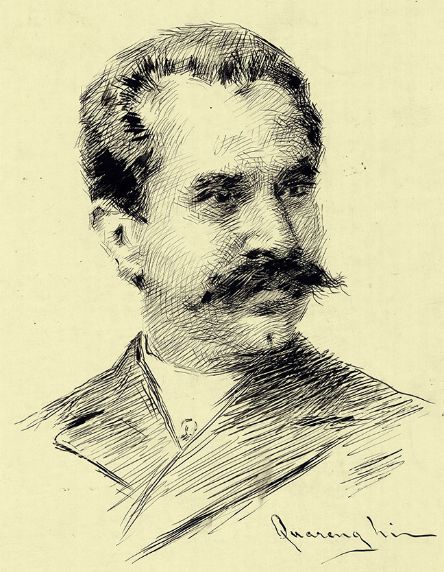 Portrait of Oronzo Mario Scarano, composer (1847-1901), before 1940.